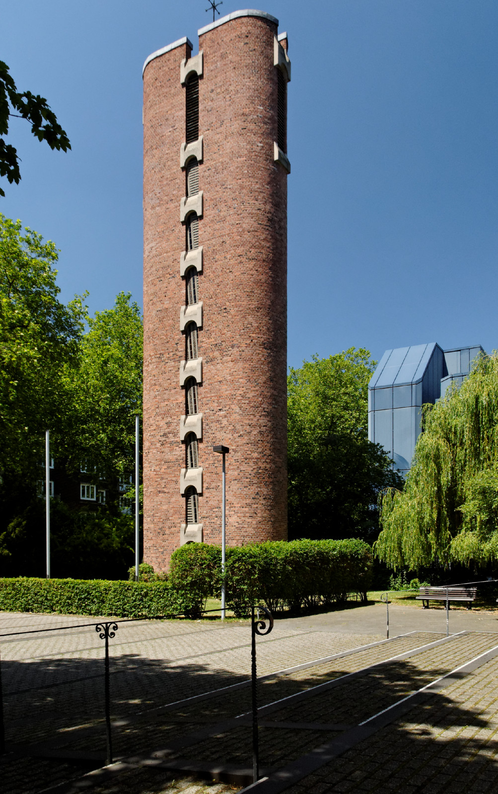 Tower of Saint Albertus Magnus in Düsseldorf-Golzheim, Germany